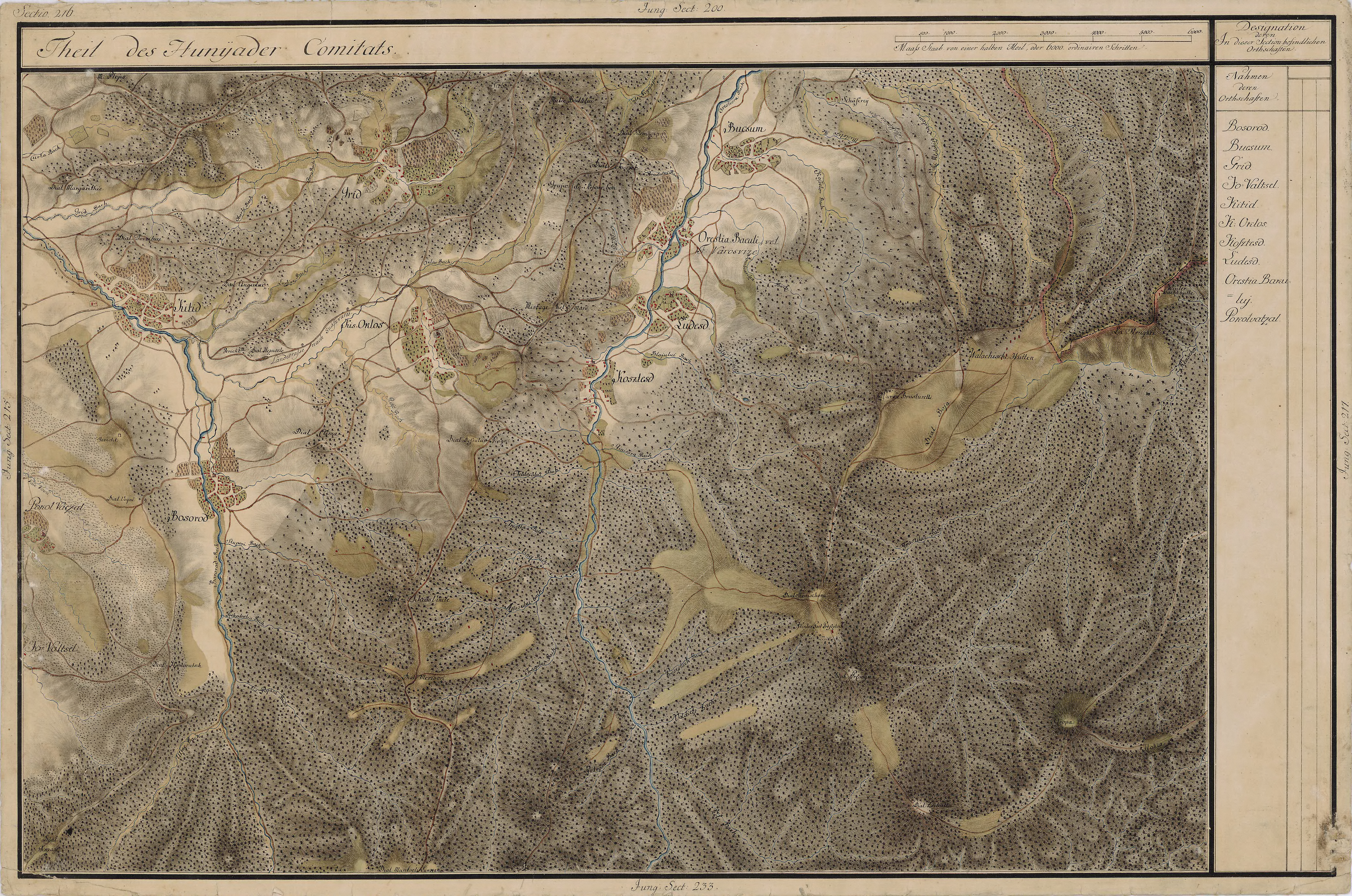 Grand Duchy of Transylvania, 1769-1773. Josephinische Landaufnahme pg.216